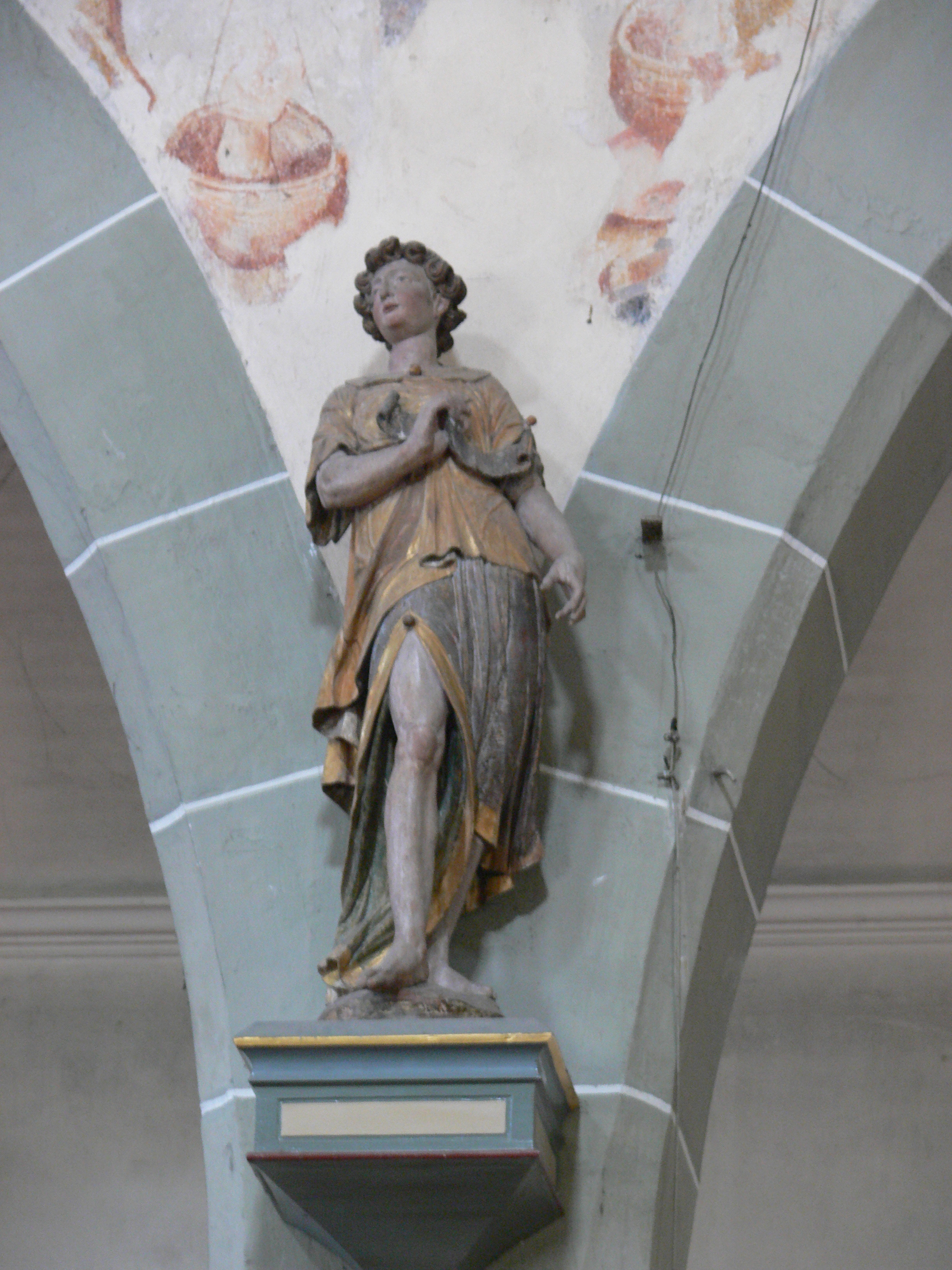 Pfarrkirche St. Georg, Bermatingen, Bodenseekreis: Verkündigungsengel von Hans Morinck (um 1600); aus der 1971 abgebrochenen Laurentiuskapelle Hans Morinck (1555–1616) Alternative names Moring, HansDescription sculptorDate of birth/death circa 1555 date QS:P,+1555-00-00T00:00:00Z/9,P1480,Q5727902 1616Location of birth/death Gorinchem, Holland KonstanzWork location Konstanz (ab 1578)Authority control : Q18508263 VIAF: 3266024 ISNI: 0000 0000 2015 0891 ULAN: 500322861 GND: 118736965 RKD: 114552 creator QS:P170,Q18508263